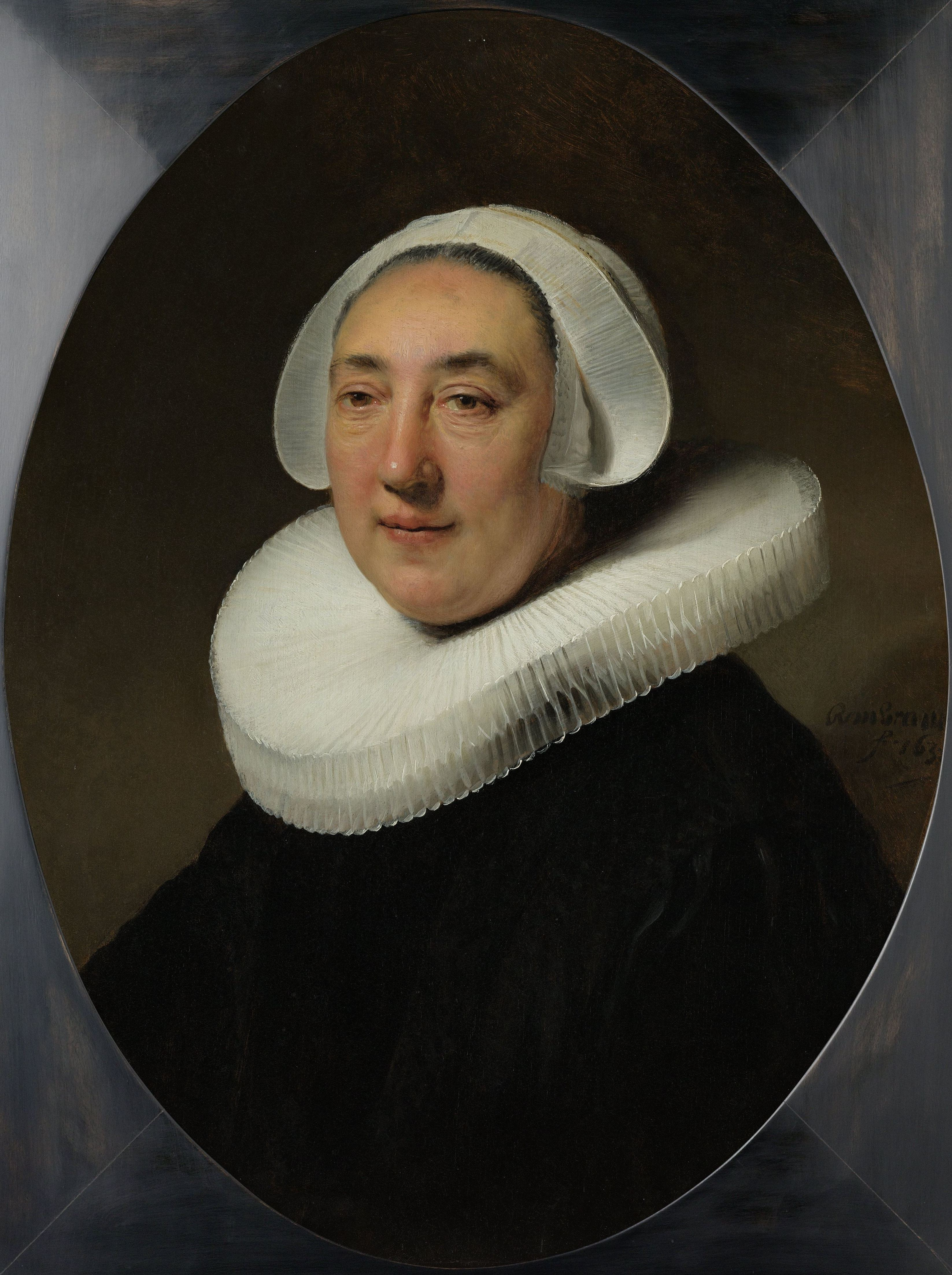 Pendant of File:Dirckpesser.jpg